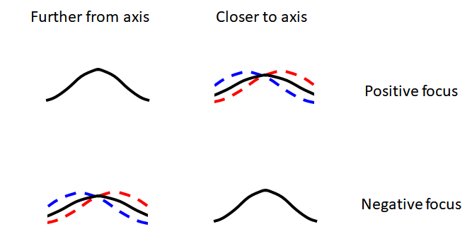 Different illumination angles result in different image shifts vs. focus. This is affected by the EUV mask absorber. The red and blue images refer to illuminations from sources on opposites of the optical axis. The black images are their superpositions.refM. Burkhard et al., Proc. SPIE 10957, 1095710 (2019). At the best focus, the red and blue images are overlapped, resulting in the highest contrast superposed image (shown as a single black image). Left: the illumination angles further from the optical axis have a positive best focus. Right: the illumination angles closer to the optical axis have a negative best focus.